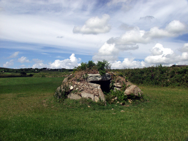 Brane burial chamber. Situated on open farmland, and used as a sheep shelter. From memory, taken looking west.